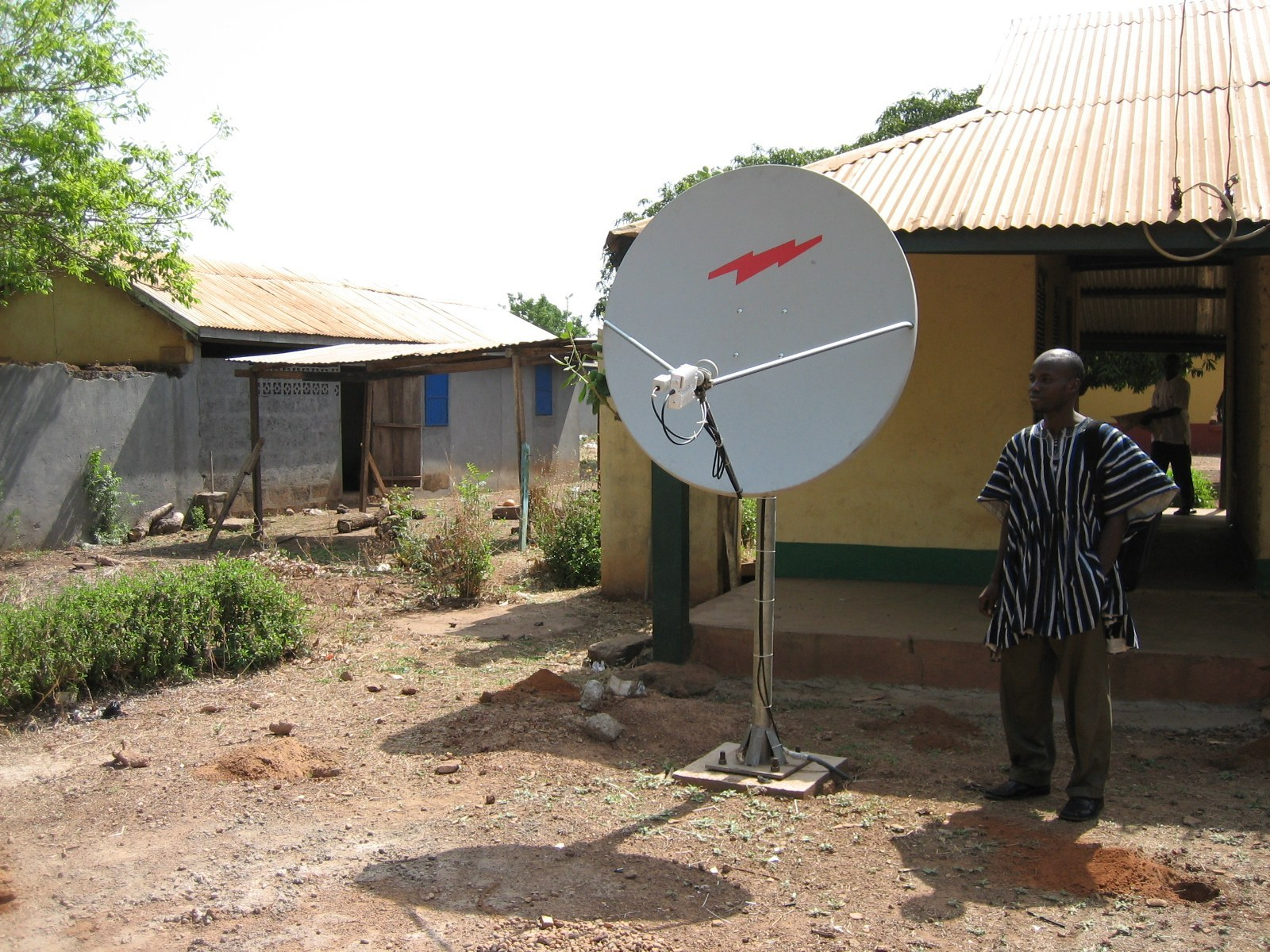 The SEND foundation installed a satellite in order to improve connectivity. VSAT at the Project Office in Salaga.